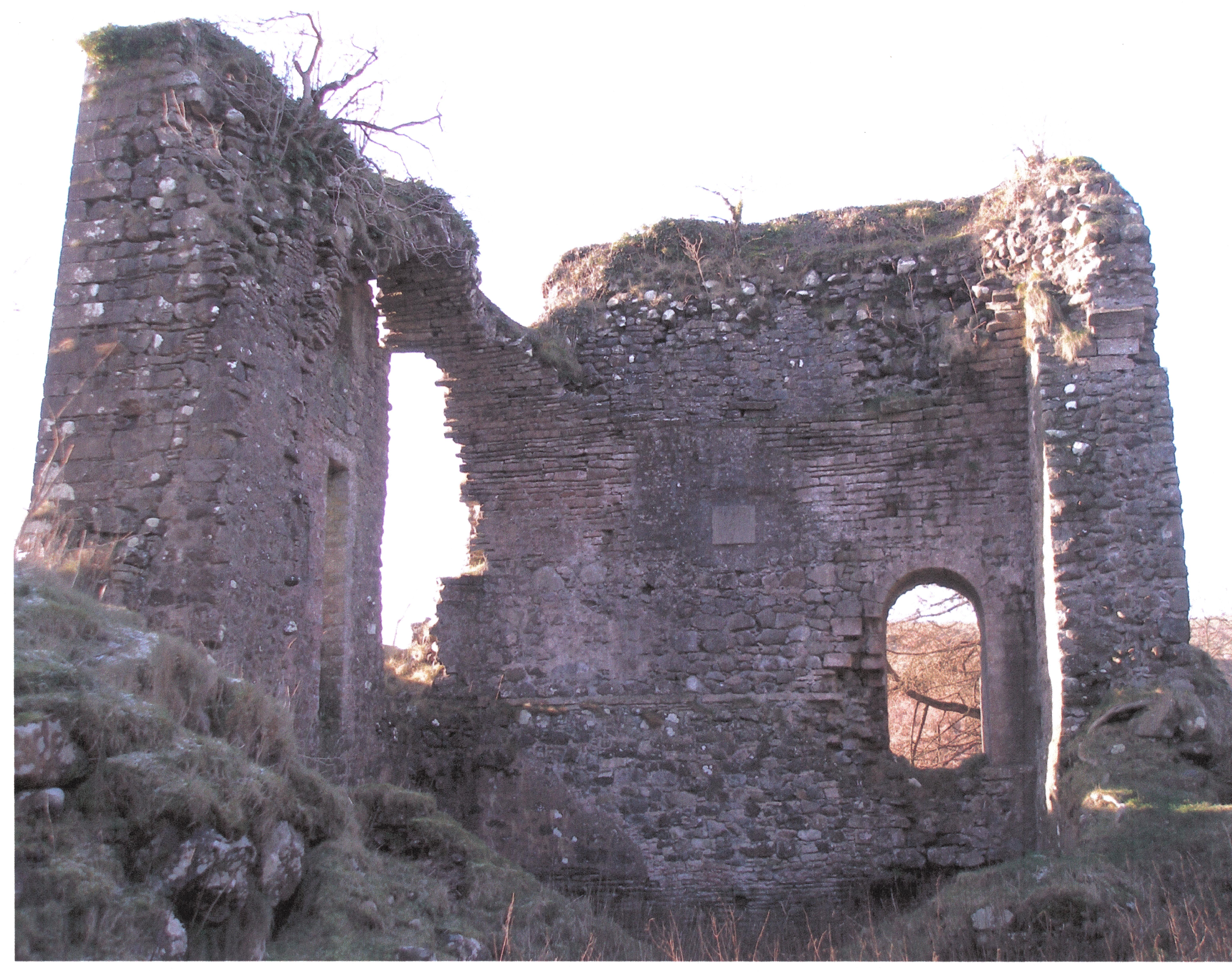 Glengarnock Castle, Kilbirnie, North Ayrshire, Scotland